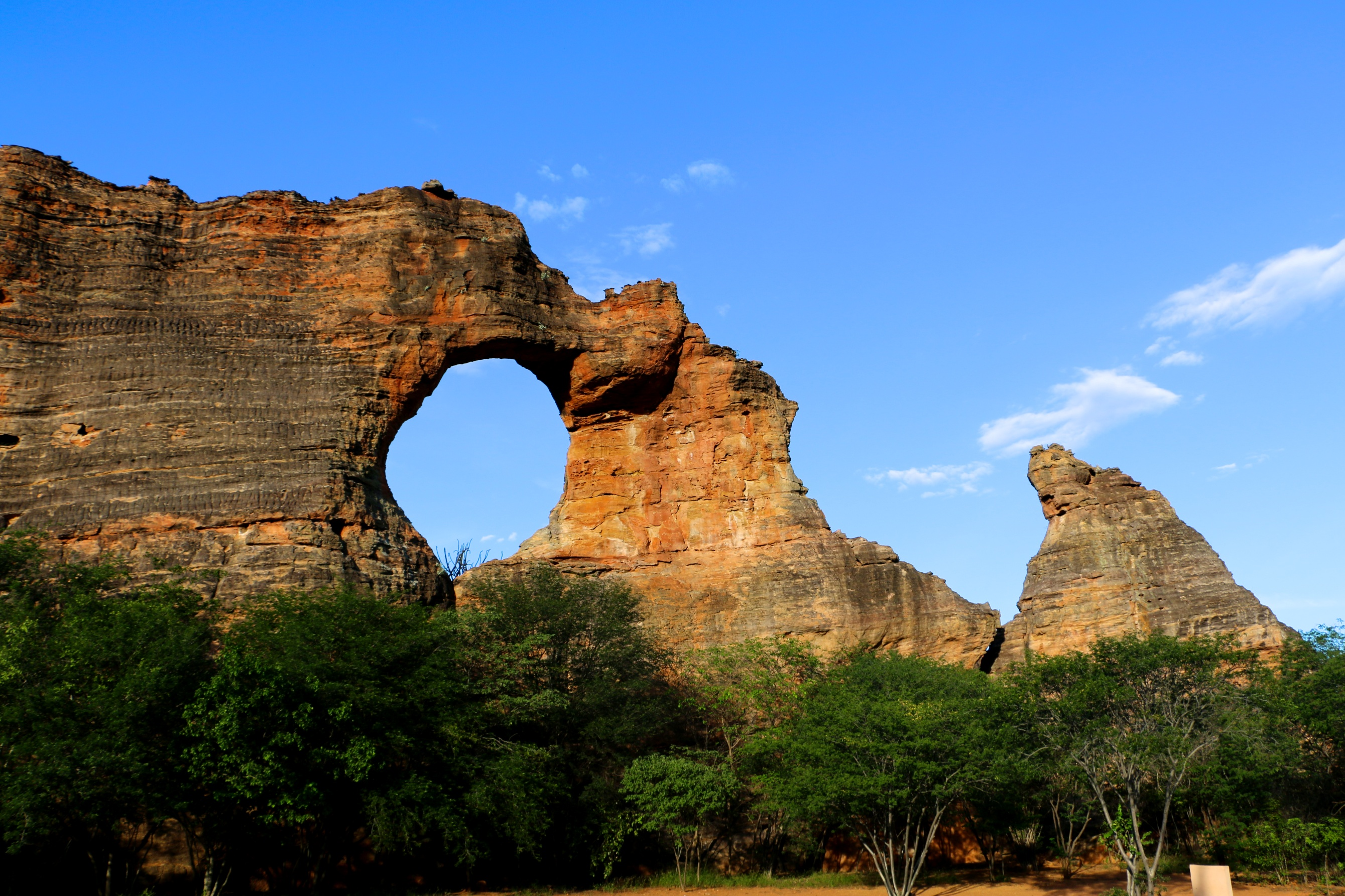 Pedra Furada formation at the Serra da Capivara National Park.